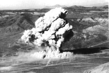 Operation Buster-Jangle/Uncle.